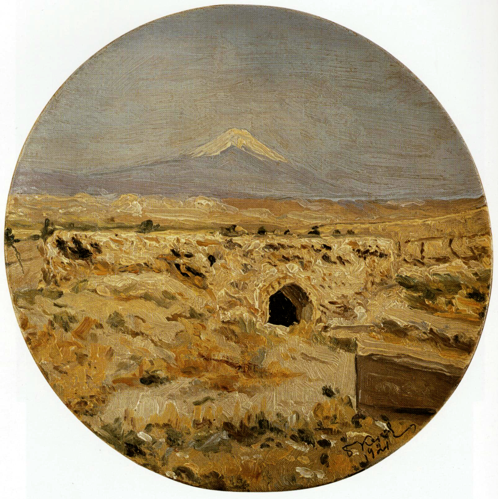 Noah's tomb. Oil on wood